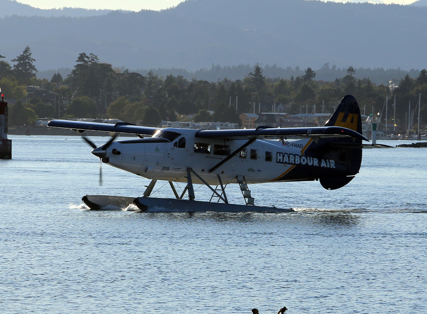 Victoria Harbour 04 Sep 2015